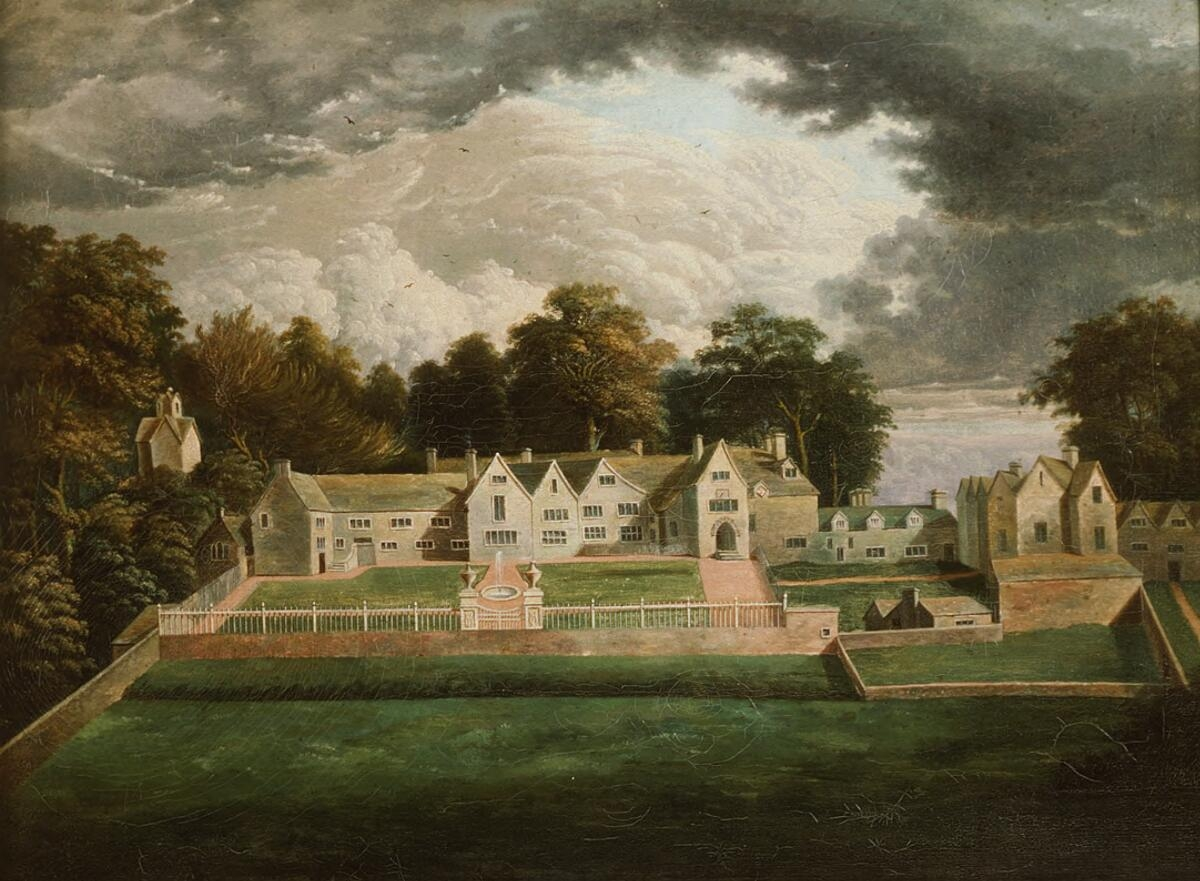 A painting from the Framed Works of Art collection at the National Library of wales.